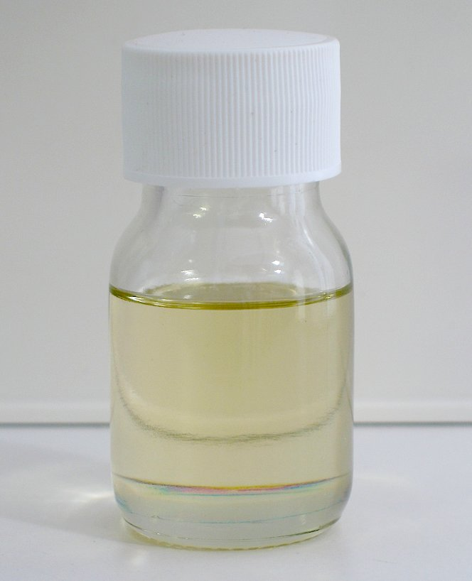 25 milliliters of thionyl chloride, a liquid at room temperature. Note the rainbow caused by refraction of light through the liquid.